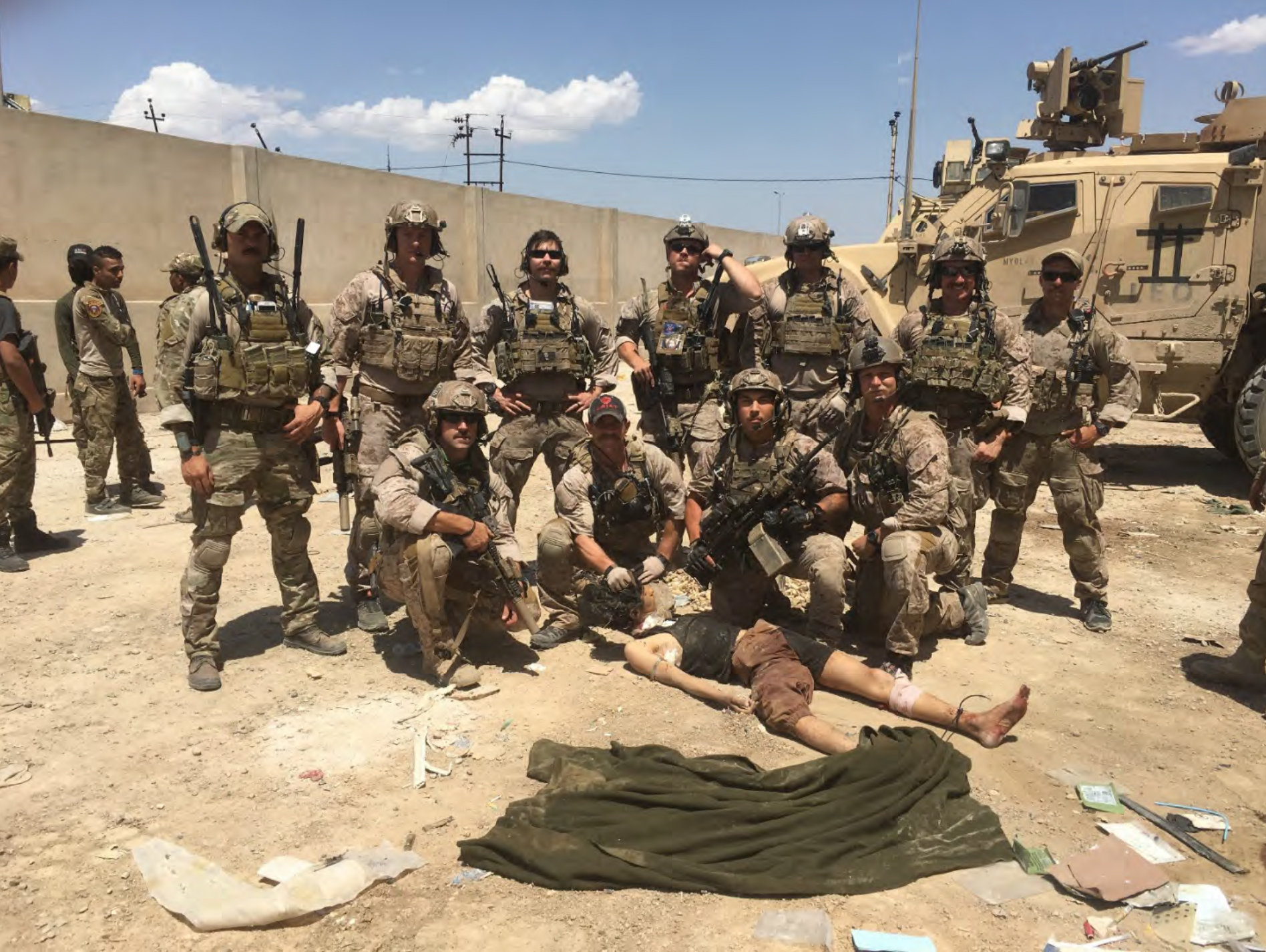 This photo, recovered from Eddie Gallagher’s phone, shows Chief Gallagher and other US Navy SEALs posing with the corpse of an Islamic State fighter. Gallagher is center, wearing a baseball cap and holding the captive's hair.